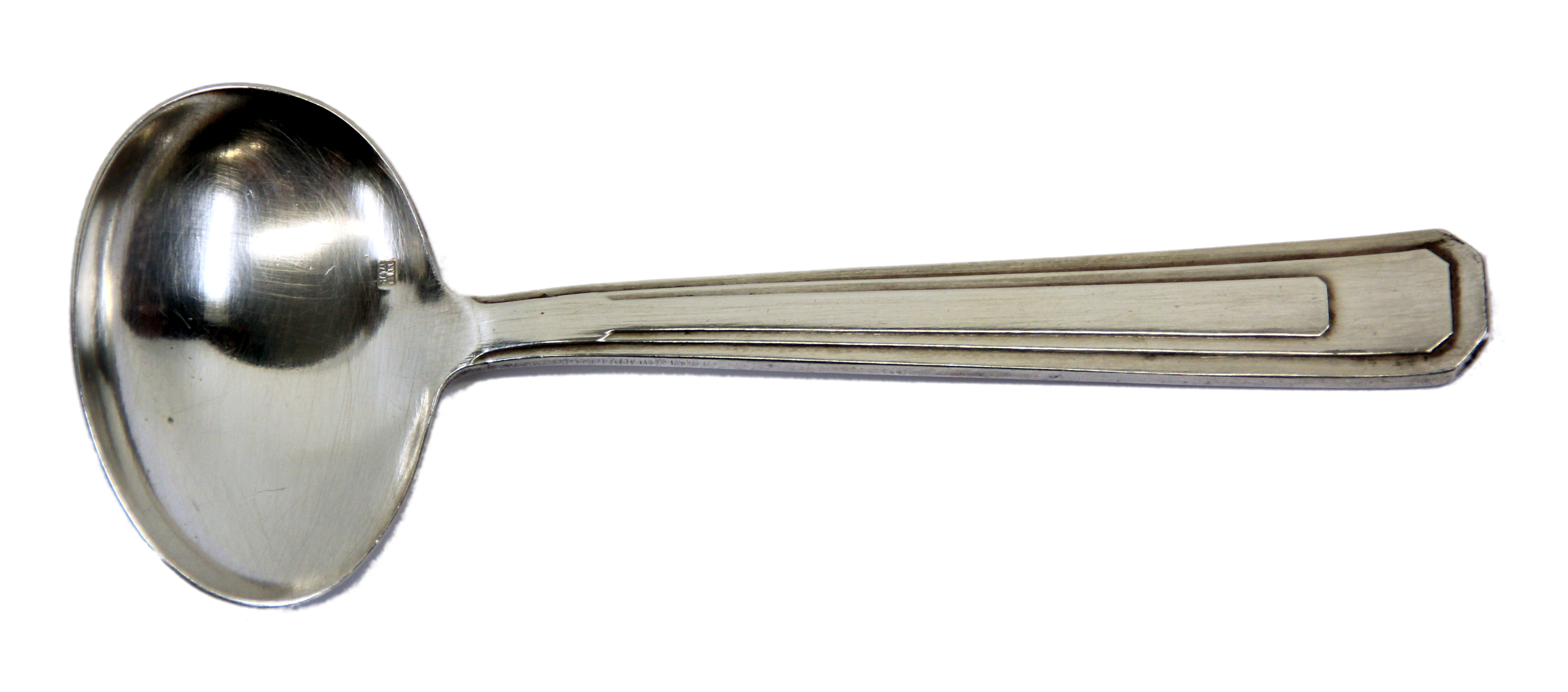 Baby spoon in silver metal and art deco decor. Length 12 cm.